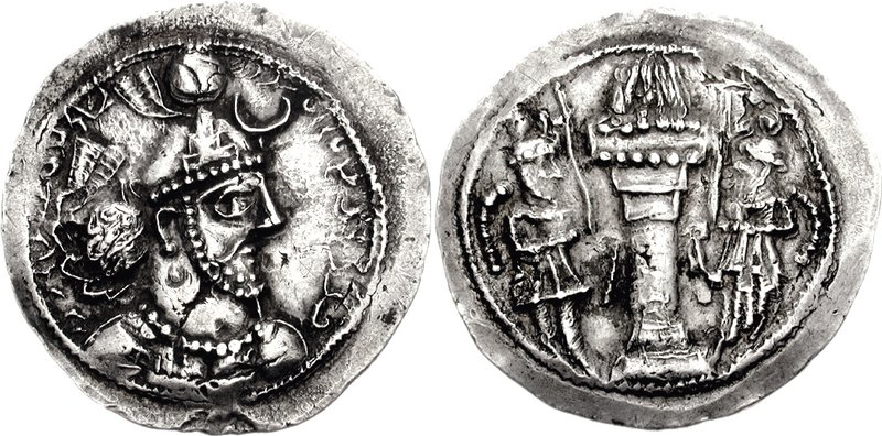 Coin of Yazdgard I (399–421), Sasanian king